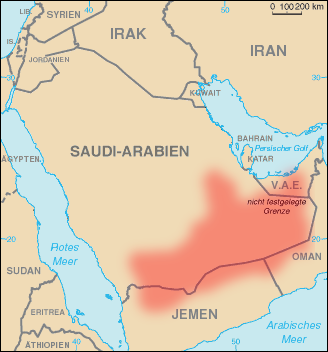 locator map of the desert Rub' al Khali, labelled in German